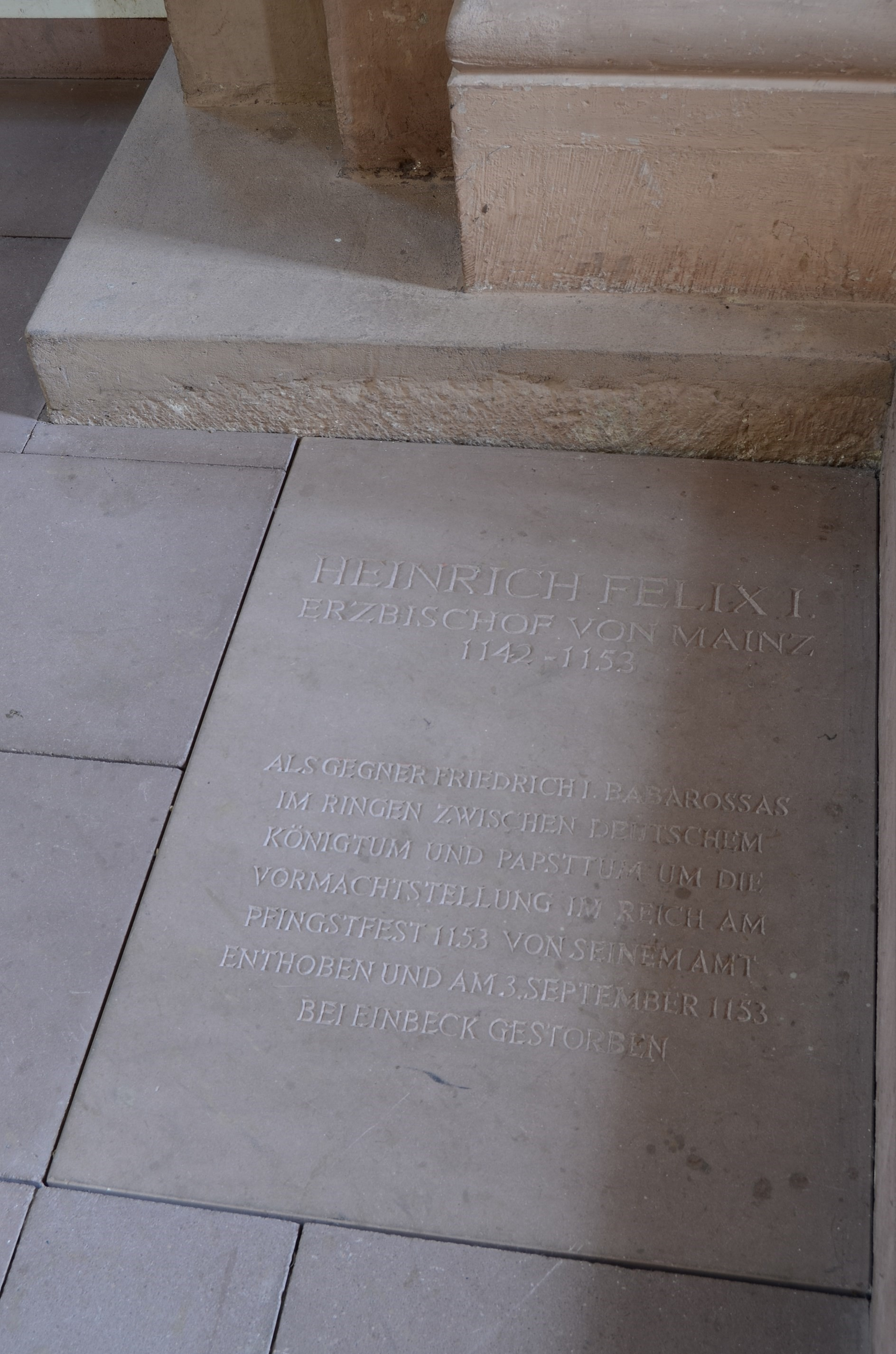 Einbeck (Lower Saxony, Germany) – Lutheran Saint Alexander Church – grave slab of Henry I, Archbishop of Mainz This is a photograph of an architectural monument.It is on the list of cultural monuments of Einbeck This photograph was taken with a Nikon D7000